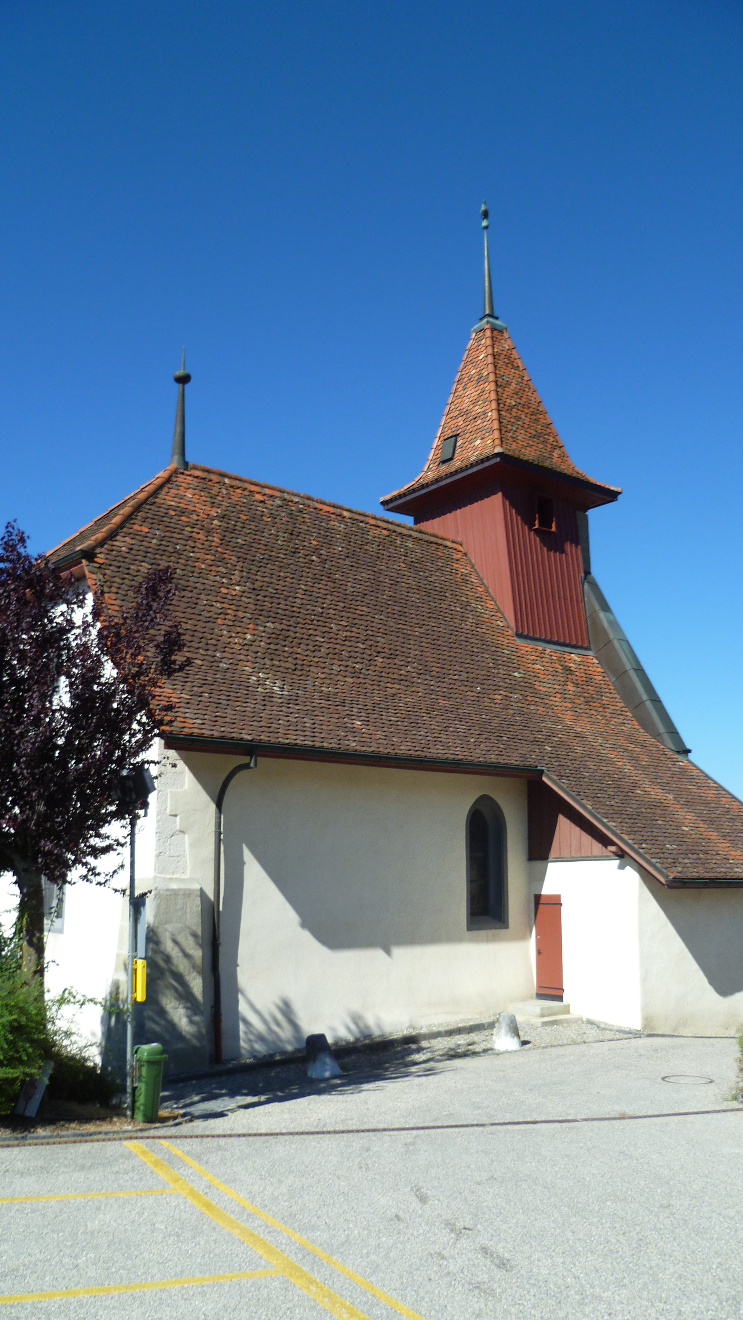 Church of Belmont-sur-Lausanne.